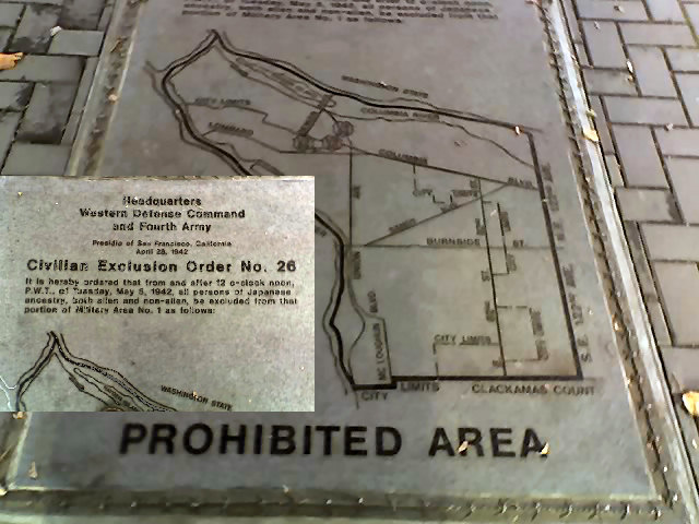 Brendan K Callahan -- Callcentermonkey 04:27, 19 November 2006 (UTC)